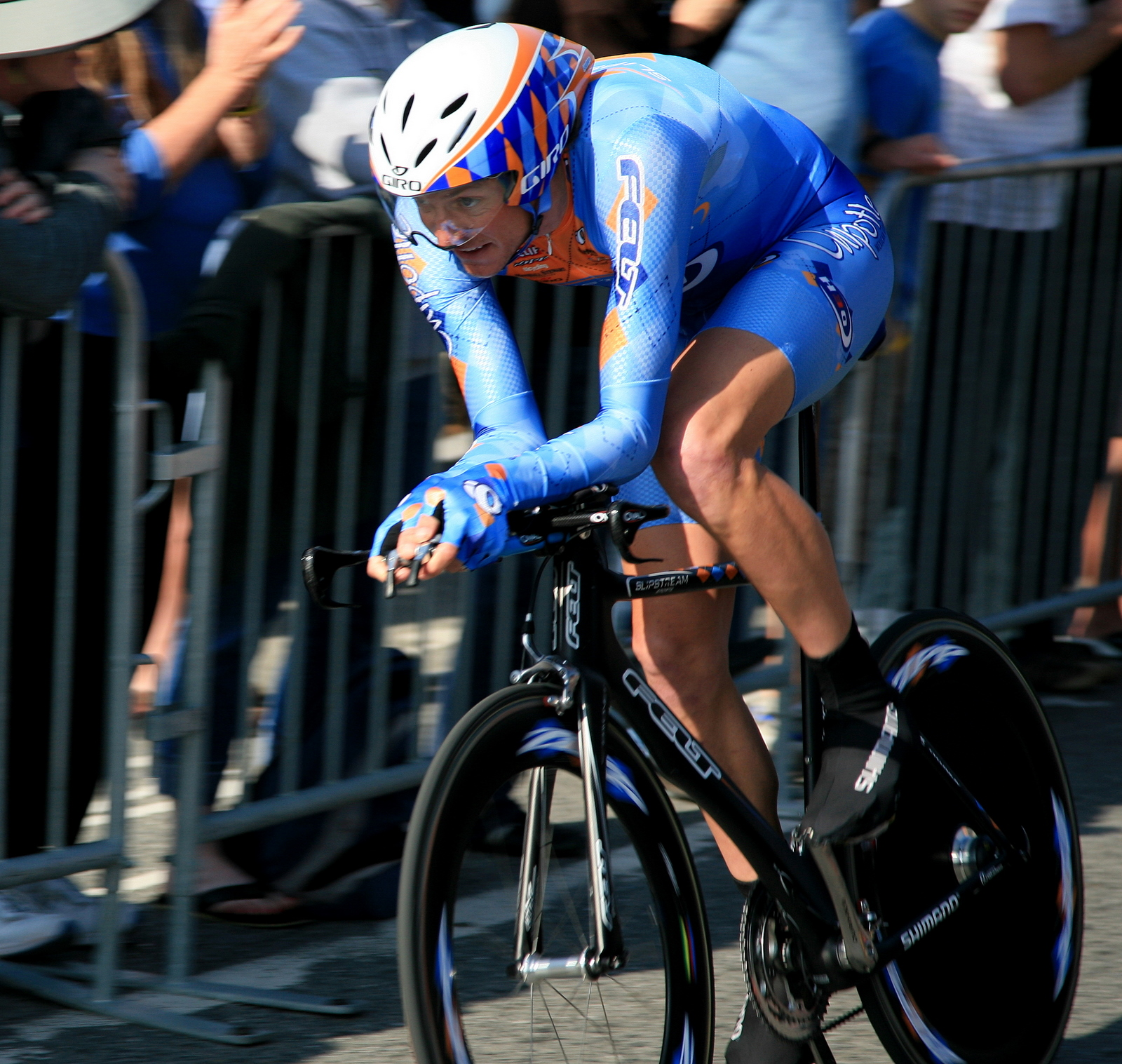 Danny Pate at the Prologue of the Tour of California in Palo Alto